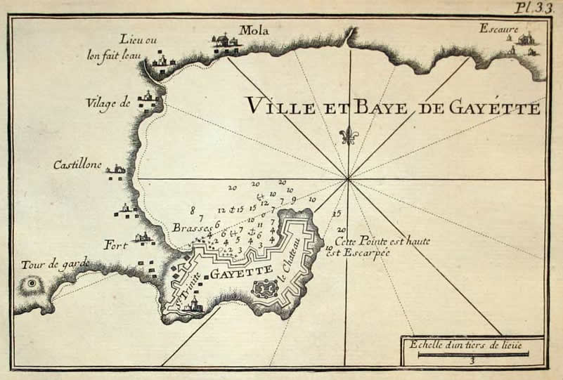 Joseph Roux - City and Bay of Gaeta - Receuil Des Principaux Plans; des Ports, et Rades de la Mer Mediterranée... - Marseille, 1764